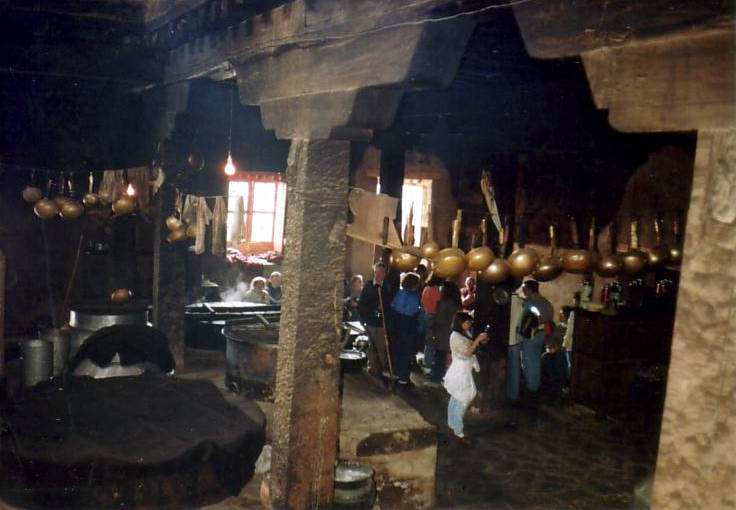 I took this photo myself in 1993. John Hill 02:10, 29 January 2007 (UTC)